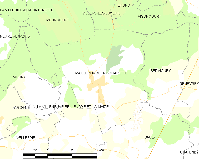 Map of French municipality